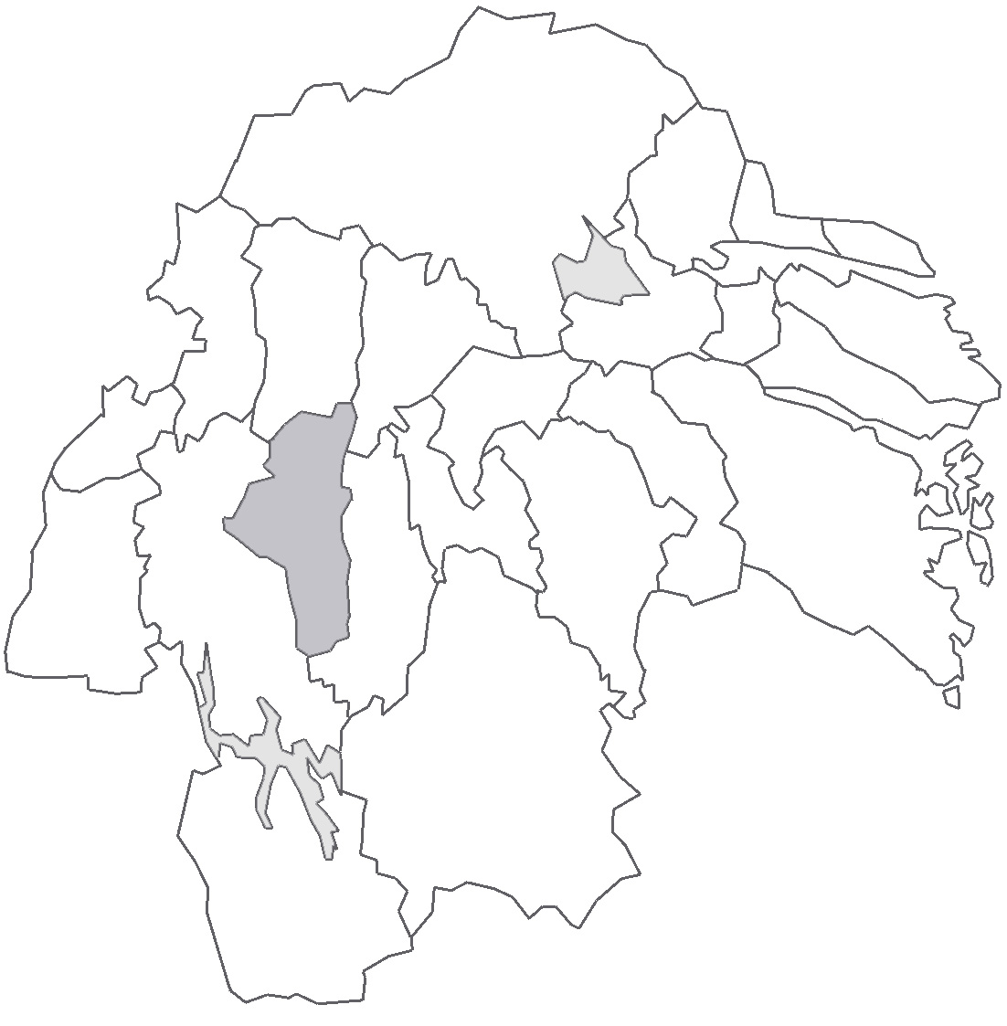 Map describing the location of Vifolka Hundred in Östergötland County, Sweden.